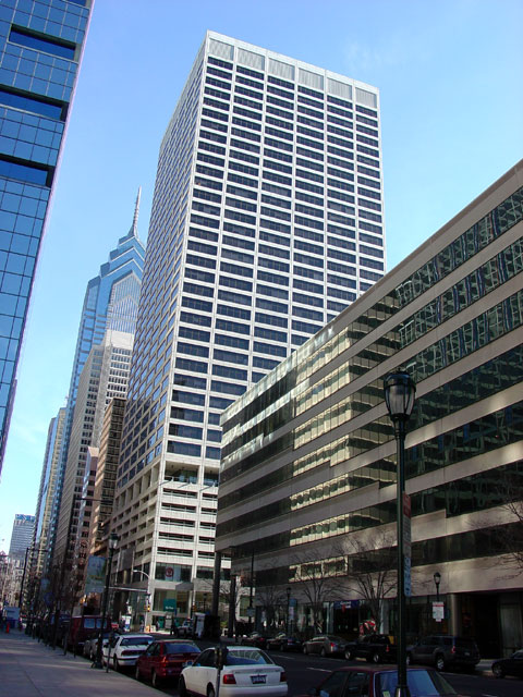 1818 Market Street from Market Street